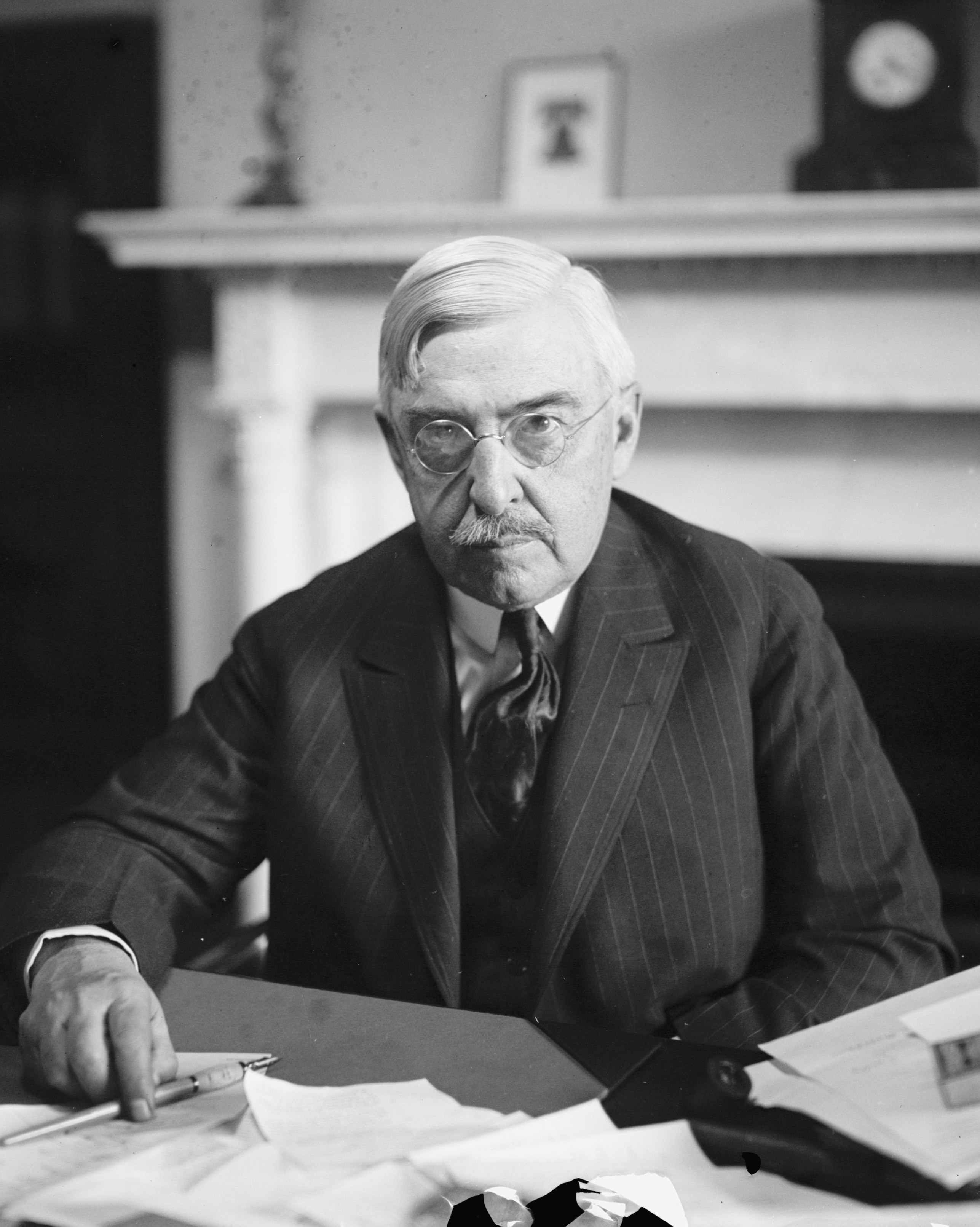 Title: Senator Wm. M. Butler of Mass., [11/28/24] Abstract/medium: 1 negative : glass ; 5 x 7 in. or smaller